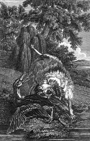 Drawing of a French Spaniel hunting a Mallard, published in Sporting Magazine in 1805.